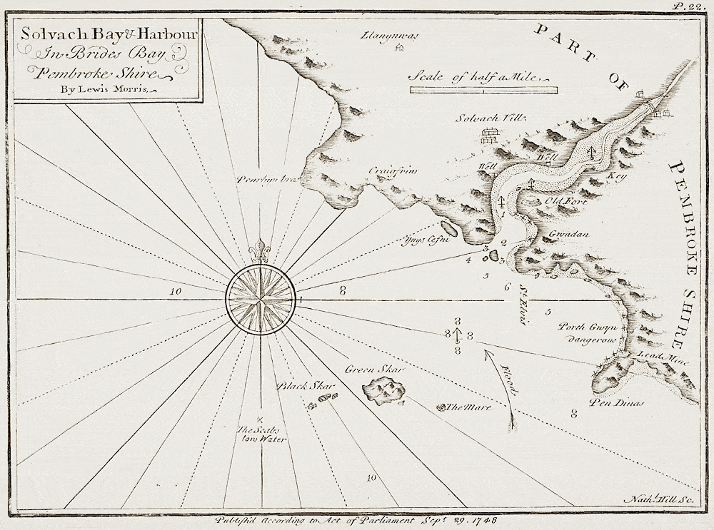 Lewis Morris' coastal charts of Wales. In 1748 Admiralty encouraged the publication of Morris private survey of the Welsh coast and individual harbour plans. They were published privately that September.